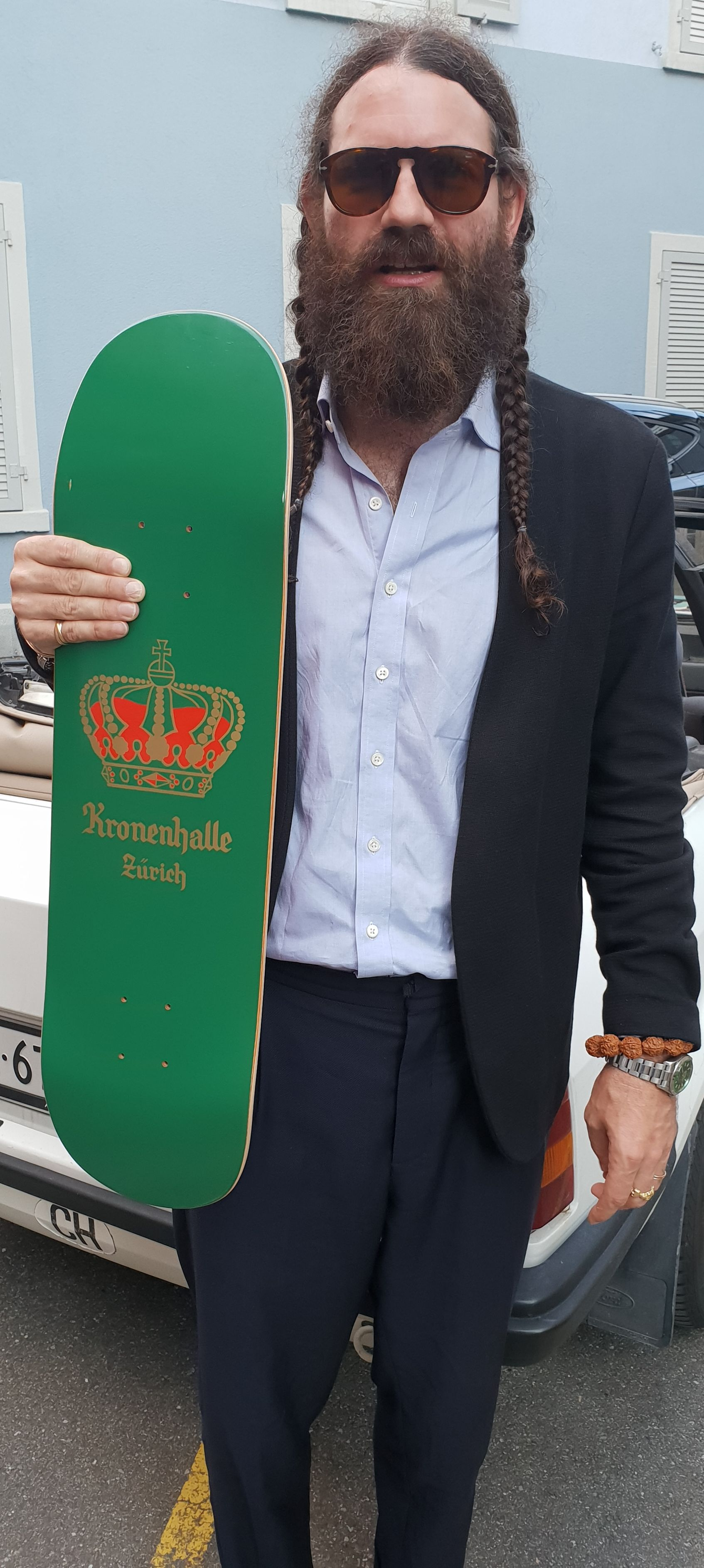 Artist Fabian Marti presents a skate board with the logo of Restaurant Kronenhalle.